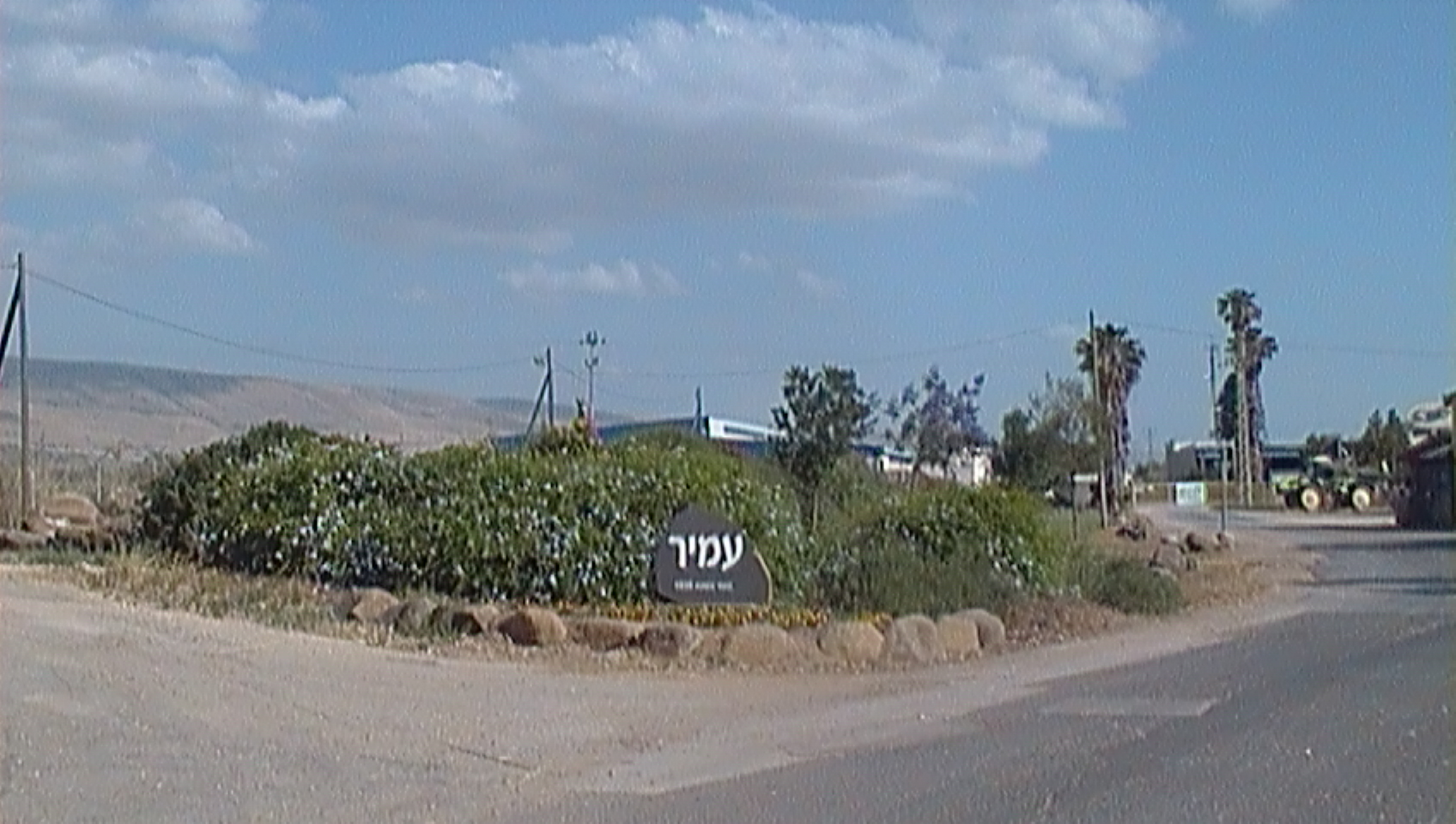 Entrance to Kibbutz Amir